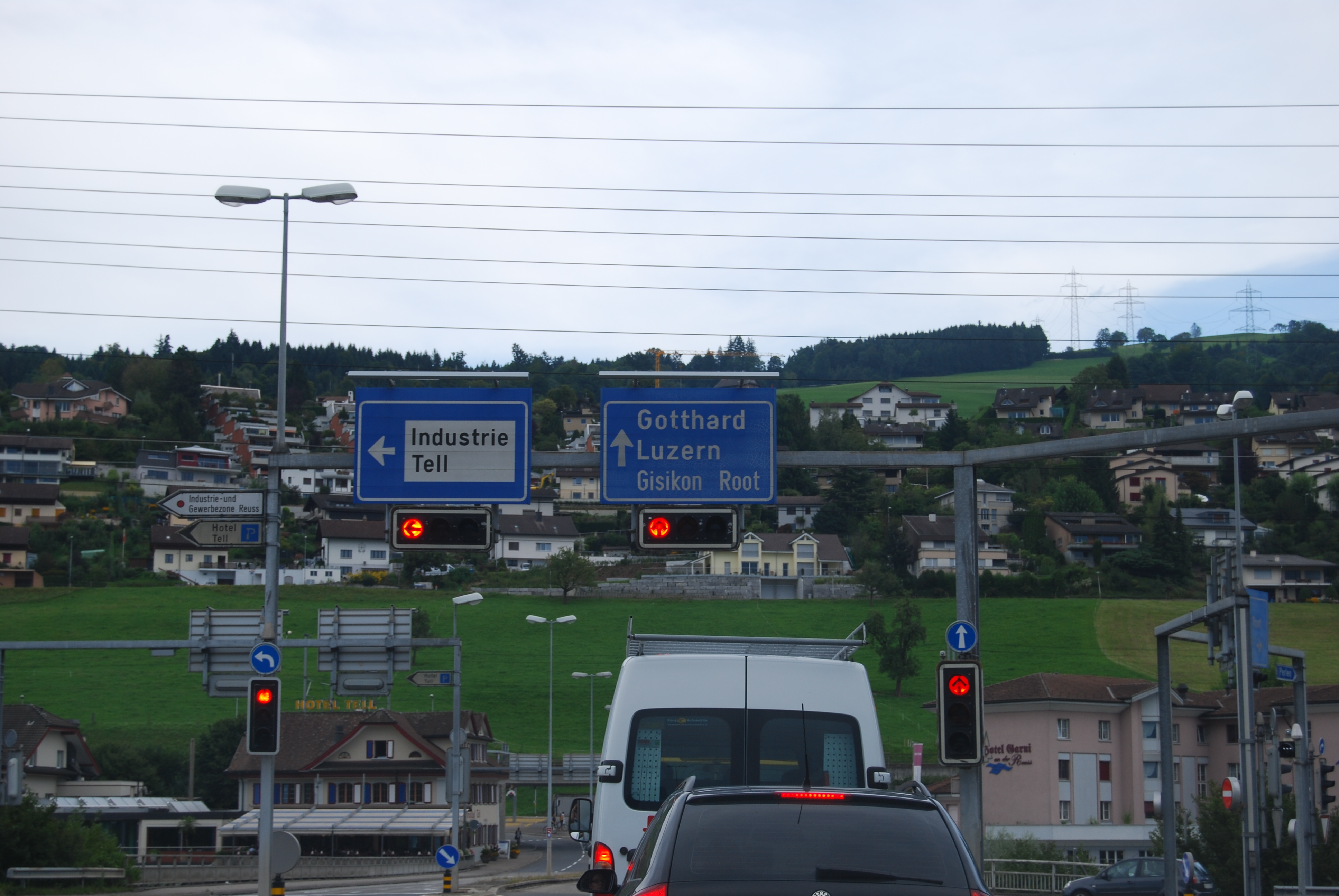 Gisikon, canton of Lucerne, SwitzerlandEsperanto: Gisikon, Kantono Lucerno, Svislando